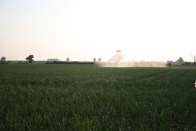 Irrigation pump. Watering a field of shallots by Wood Lane near South Scarle